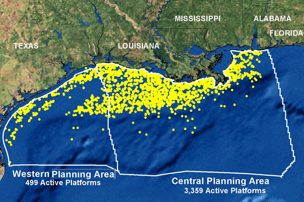 Map of the northern Gulf of Mexico showing the nearly 4,000 active oil and gas platforms.